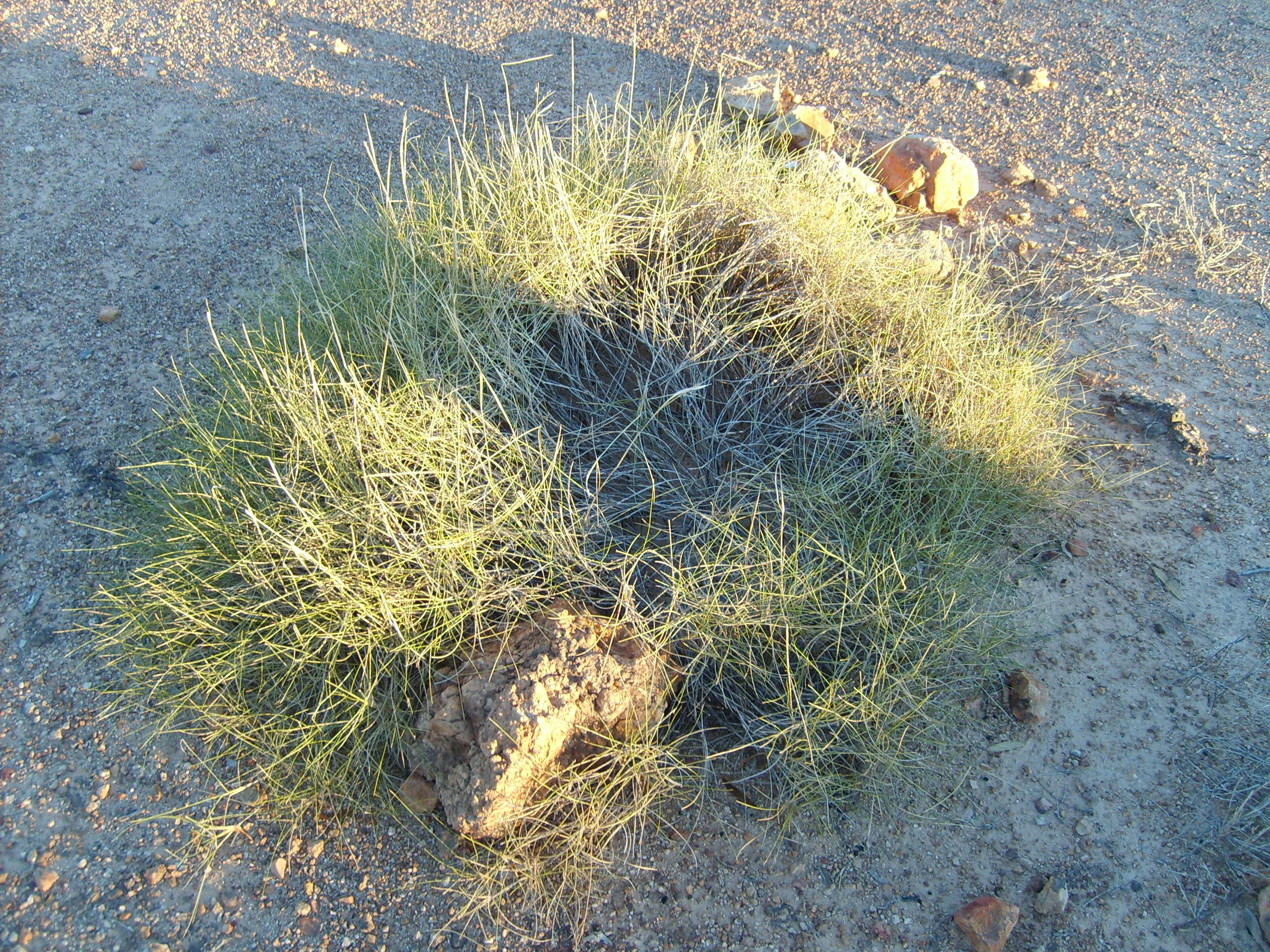 Porcupine grass, a species of Triodia at Logan Falls, Bladensburg National Park, Queensland, Australia, April 2007.